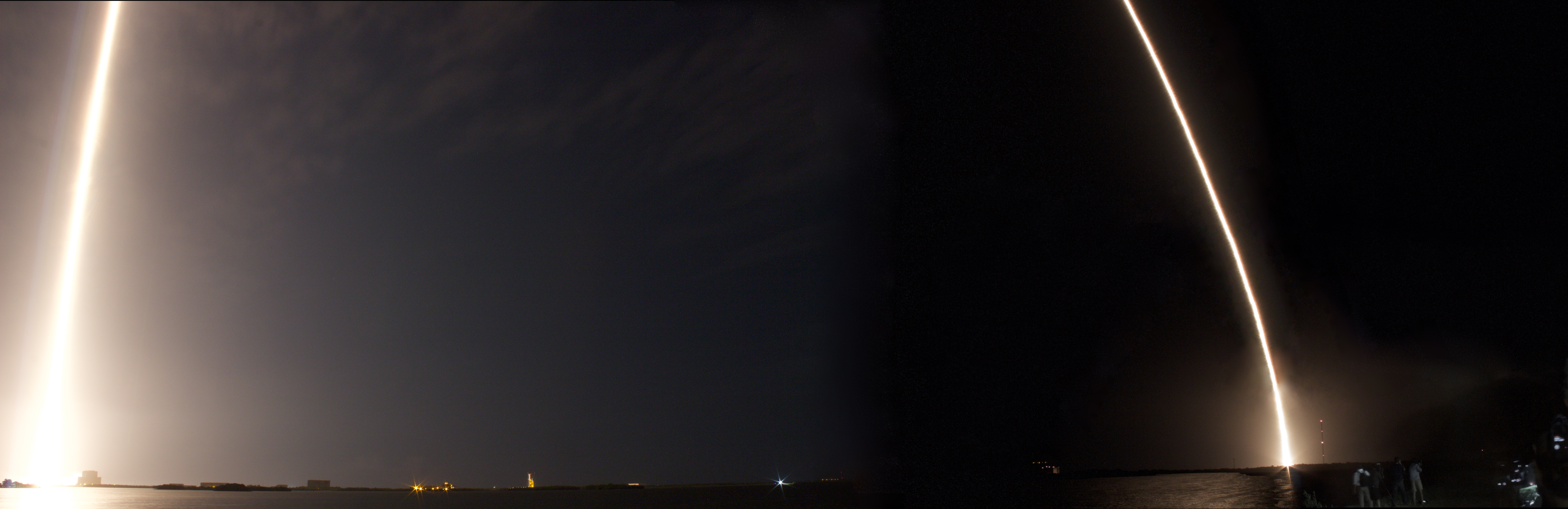 Landing Photo SuperStitch